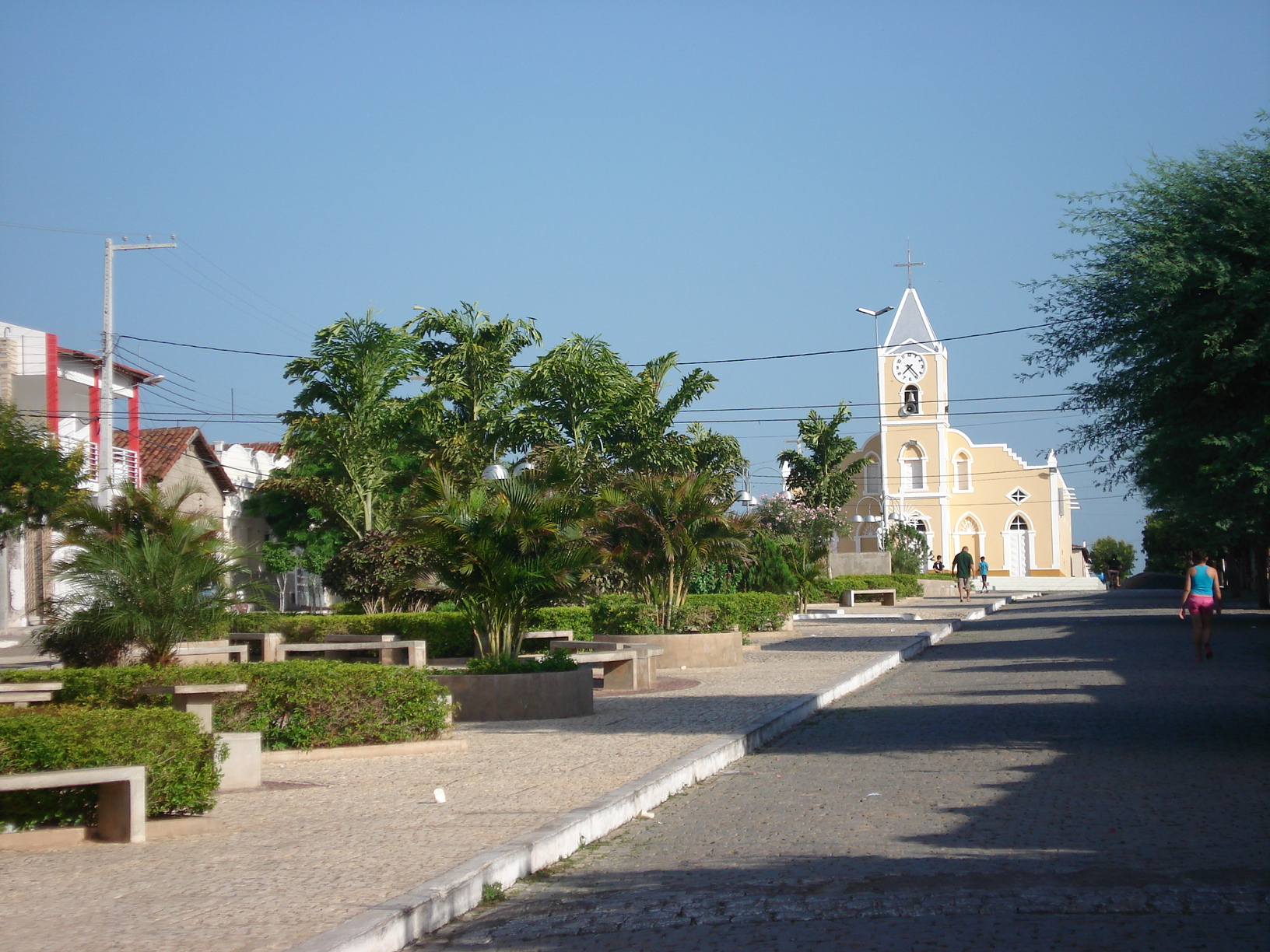 Central Avenue in Sao Jose